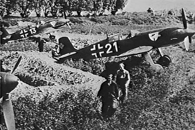 German Heinkel He 100D-1 fighters. This is a 1940 propaganda photo, showing "He 113 night fighters" with bogus markings.